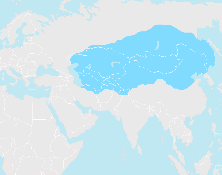 செங்கிஸ் கான் இறப்பின்போது